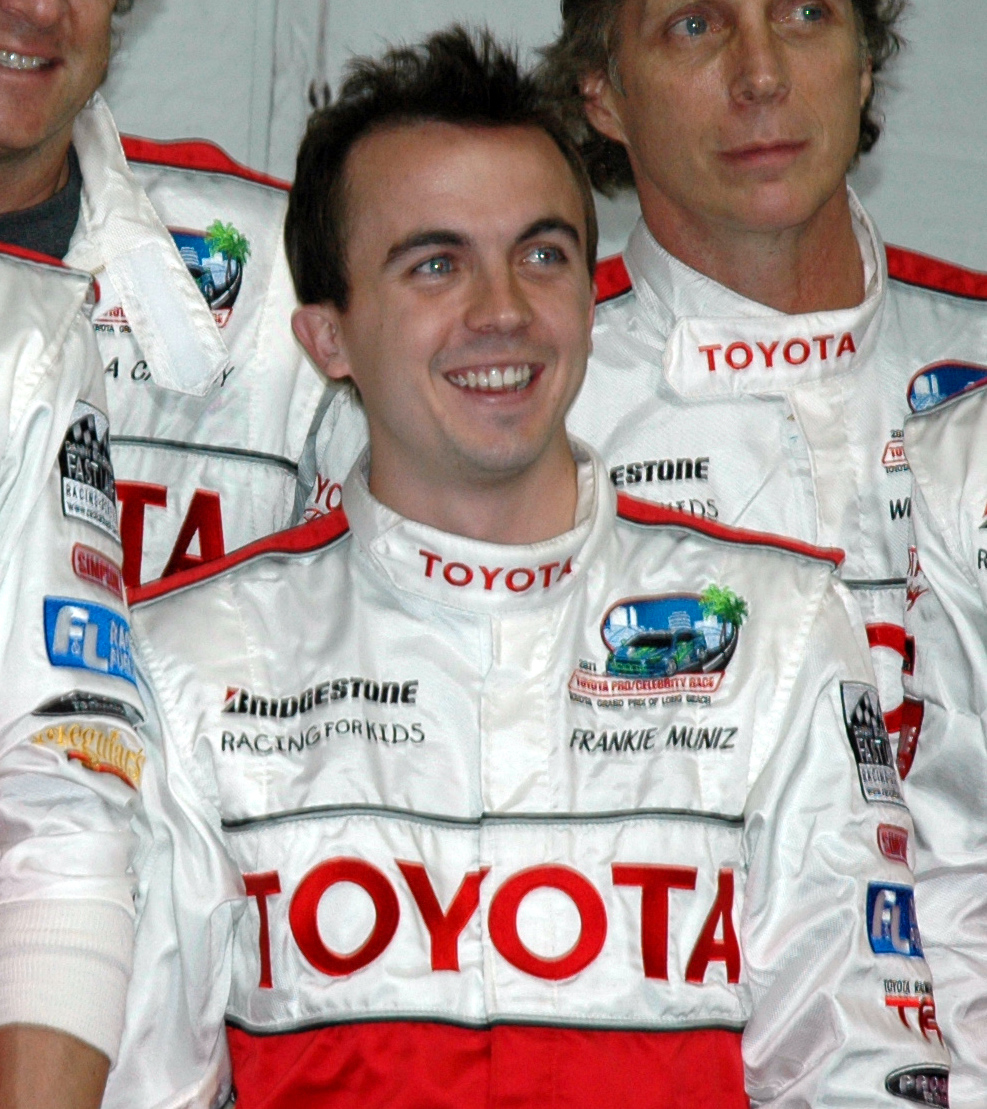 Frankie Muniz at the Toyota Grand Prix Celebrity Race 2011.